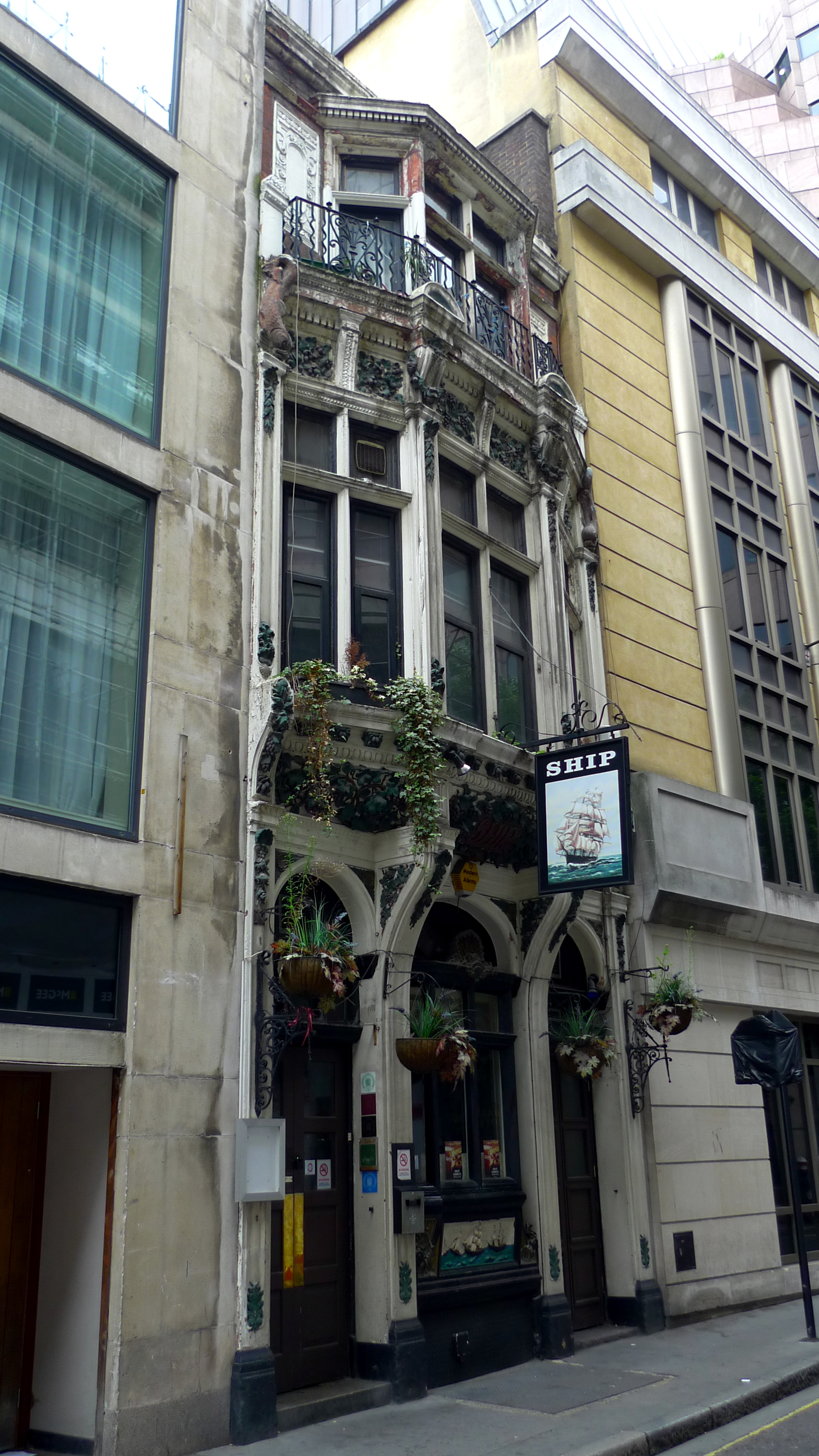 A narrow little pub down behind Fenchurch Street station. Address: 3 Hart Street, off Mark Lane. Former Name(s): The Woolpack (on the same site). Owner: Scottish and Newcastle Pub Company; Scottish and Newcastle (former); Younger's (former). Links: Randomness Guide to London Fancyapint Pubs Galore Beer in the Evening Dead Pubs (history)